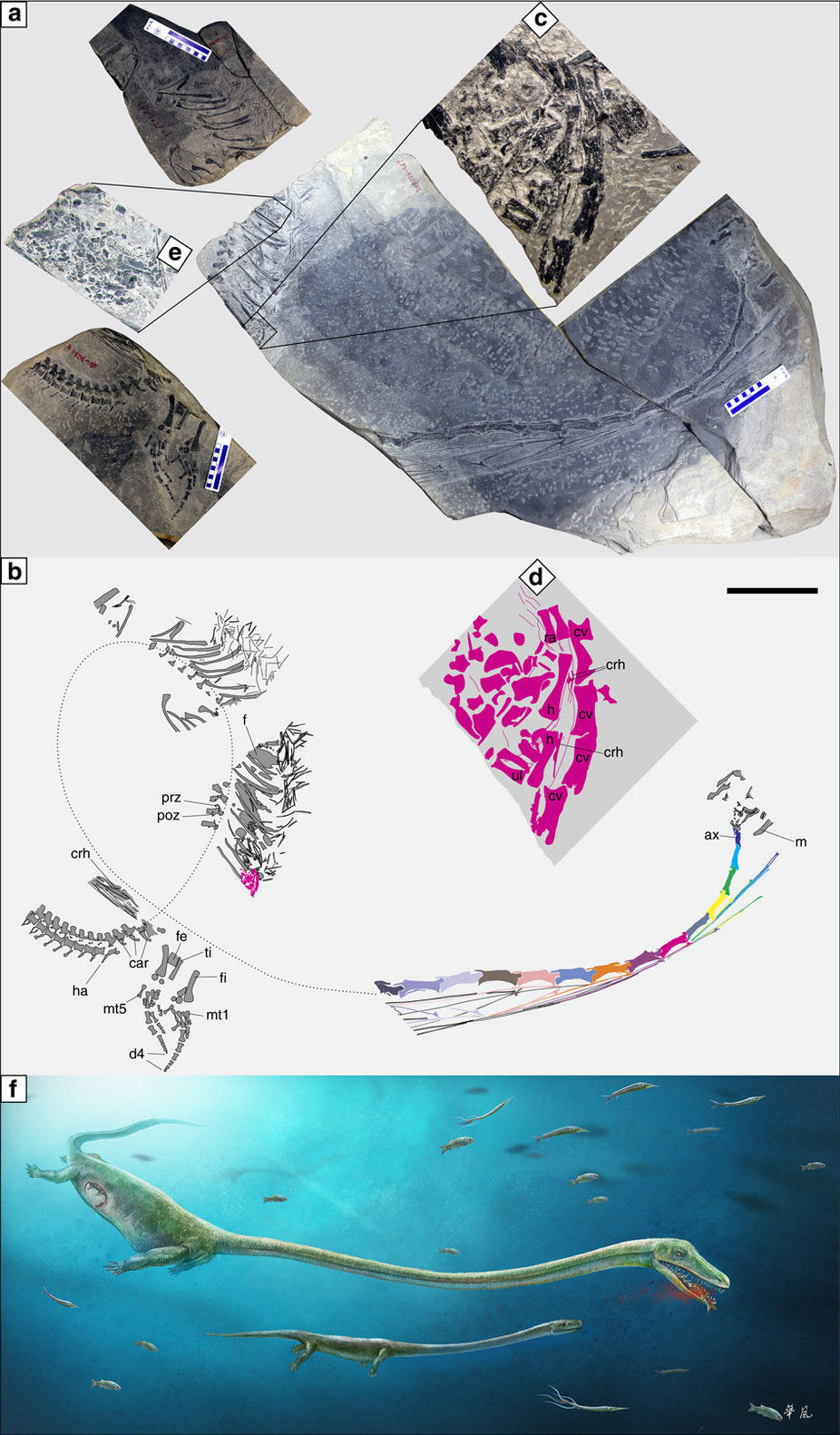 Figure 3: Skeleton of the new Dinocephalosaurus specimen LPV 30280. (a) Photograph. The three separate blocks are arranged following their original positions in the field. (b) Interpretive drawing. Dotted line indicates the rough course of the vertebral column of the adult. The different colour in the cervical region aims to facilitate the association of cervical ribs with corresponding vertebrae. (c) Photo showing a close-up of the embryo preserved in the stomach region of LPV 30280. (d) Interpretive drawing of the embryo. (e) Photo showing a close-up of the perleidid fish preserved in the stomach region of LPV 30280. (f) Artist's reconstruction of Dinocephalosaurus showing the rough position of the embryo within the mother. ax, axis; car, caudal rib; crh, cervical rib head; cv, cervical vertebrae; d4, fourth digit; f, perleidid fish; fe, femur; fi, fibula; h, humerus; ha, haemal arch; m, mandible; mt1, metatarsal 1; mt5, metatarsal 5; poz, postzygapophysis; prz, prezygapophysis; ra, radius; ti, tibia; ul, ulna. Scale bar, 20 cm.